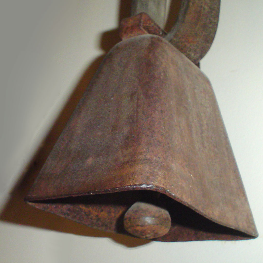 Cowbell.